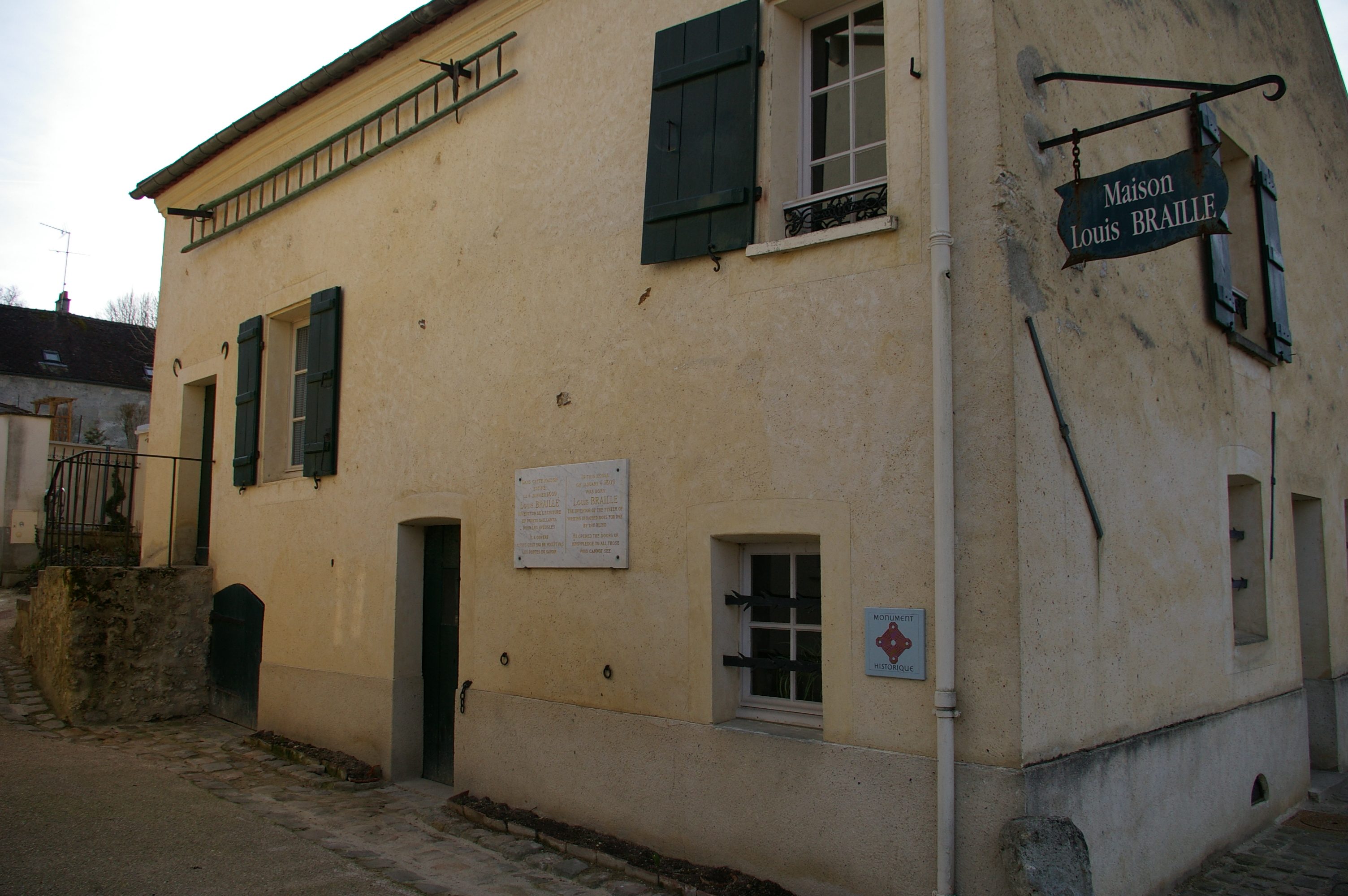 House of Louis BRAILLE